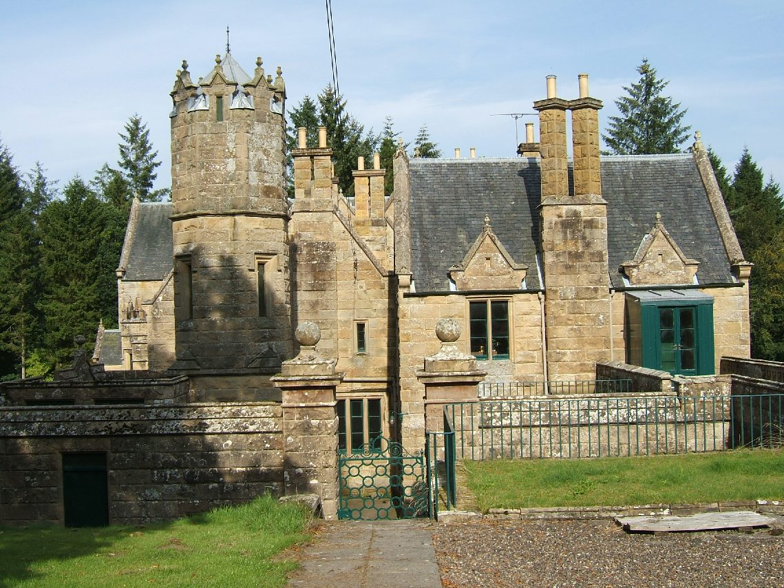 Corehouse in Lanarkshire, Scotland. The house is situated by the River Clyde and close to New Lanark.